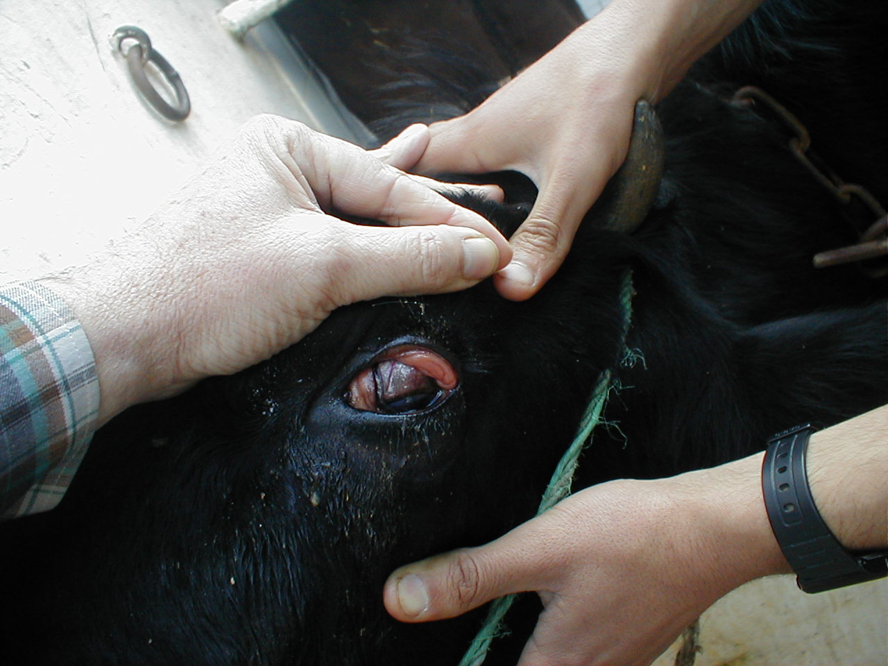 Bovine malignant catarrhal fever: sclerotic vessels; cunjunctivitis